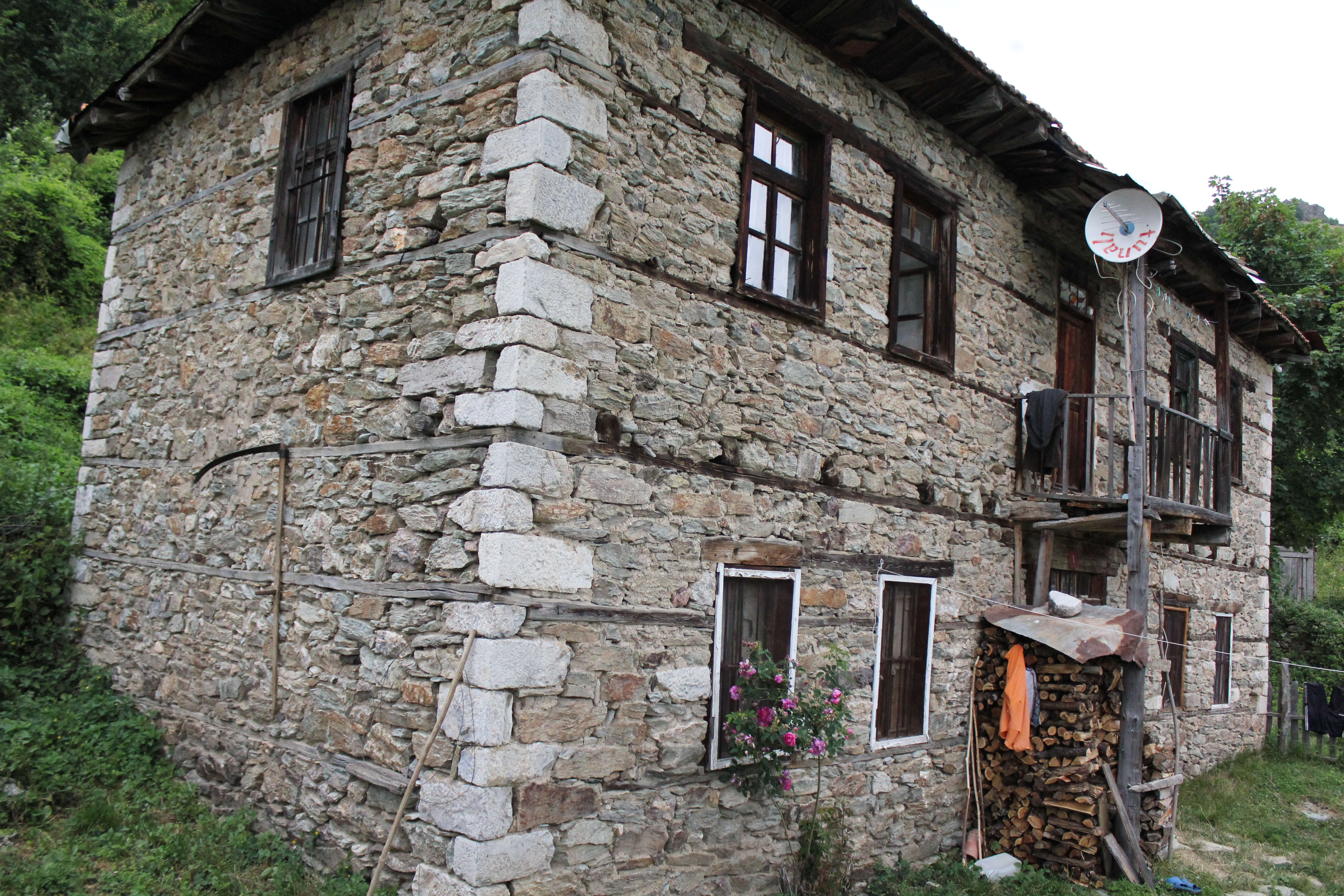 Old house in Krakornica, Macedonia.